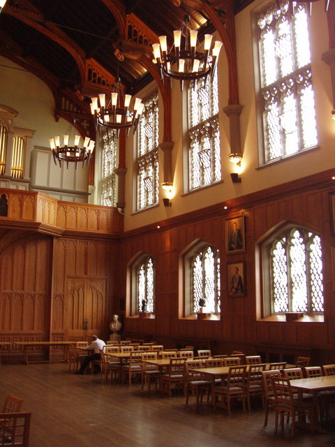 Great Hall, Queen's University Belfast After 150 years use with various modifications, it was restored in 2002 to be nearer to Lanyon's original design. The 1857 organ was installed in 2005, moved from Christ Church, College Square North, Belfast.